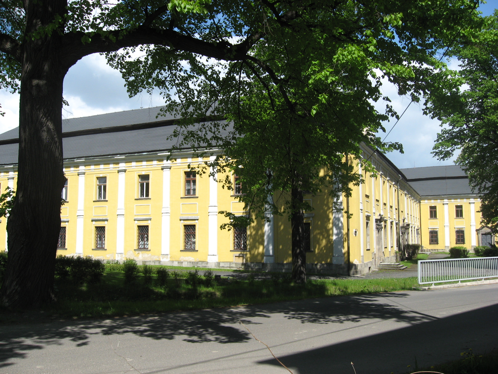 Former Piarist college (built 1724-1733) in Bílá Voda, Jeseník District, Czech Republic. A view of W and S side from the south.